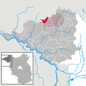 locator map of Berge (Prignitz) in the district of Prignitz, Brandenburg